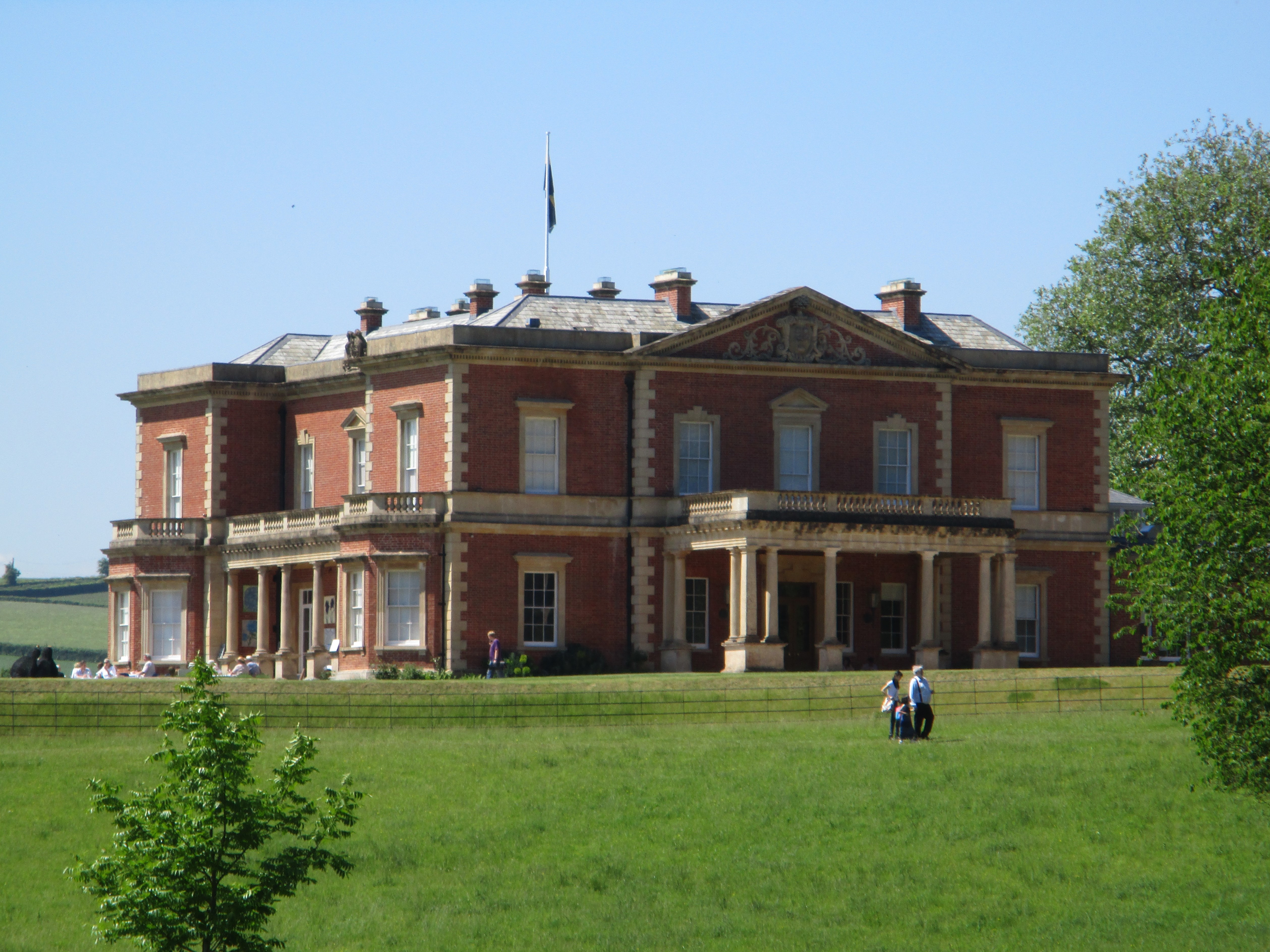 A view of Hillersdon House, Cullompton, Devon, UK from the driveway.